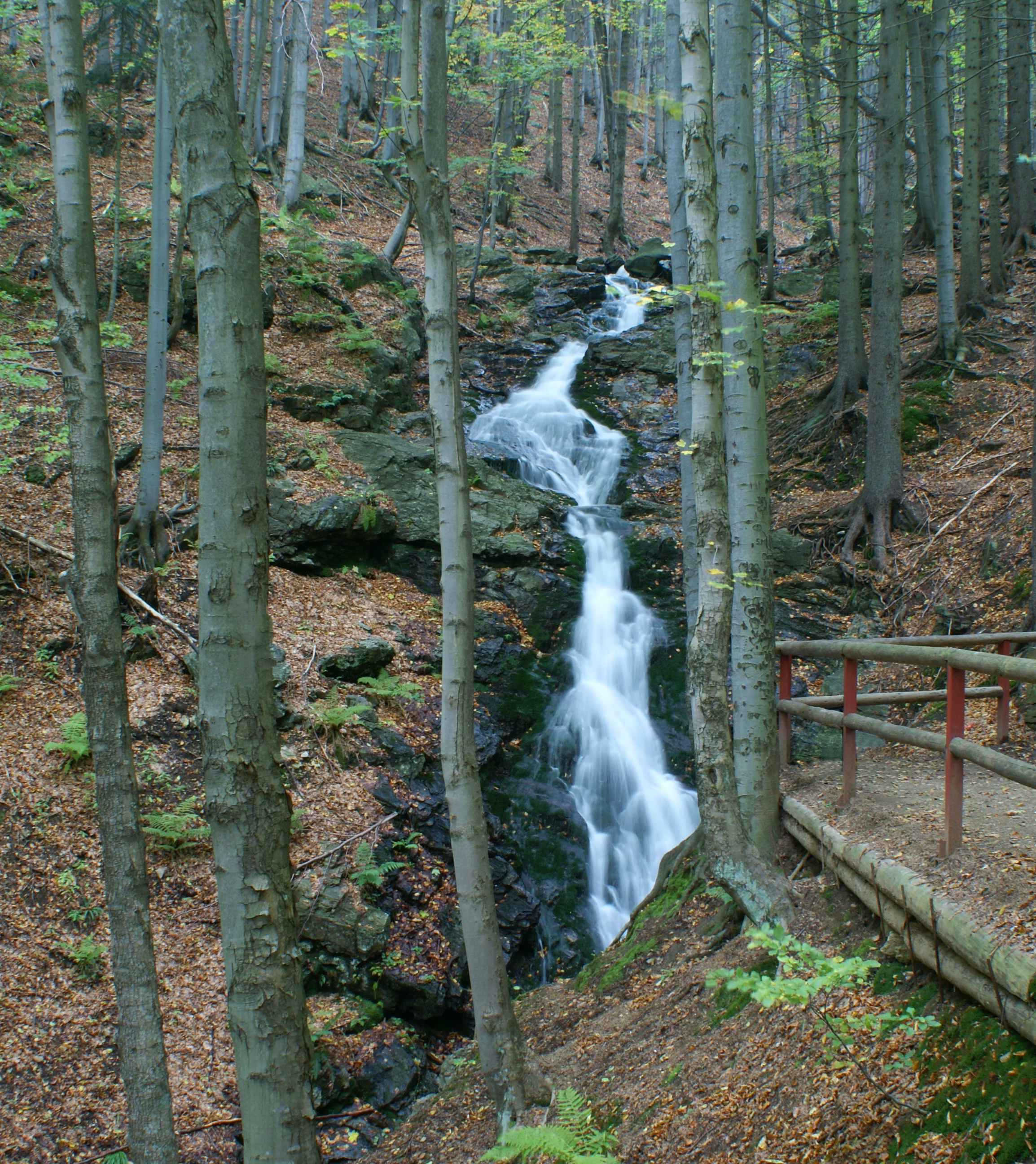 Hutsky waterfall on the Hutsky stream in Krkonose Mts., Czech Republic